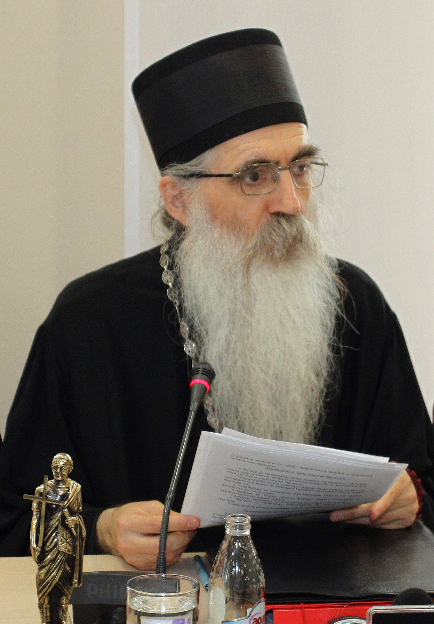 Irinej Bulović (center) on a conference in Novi Sad.